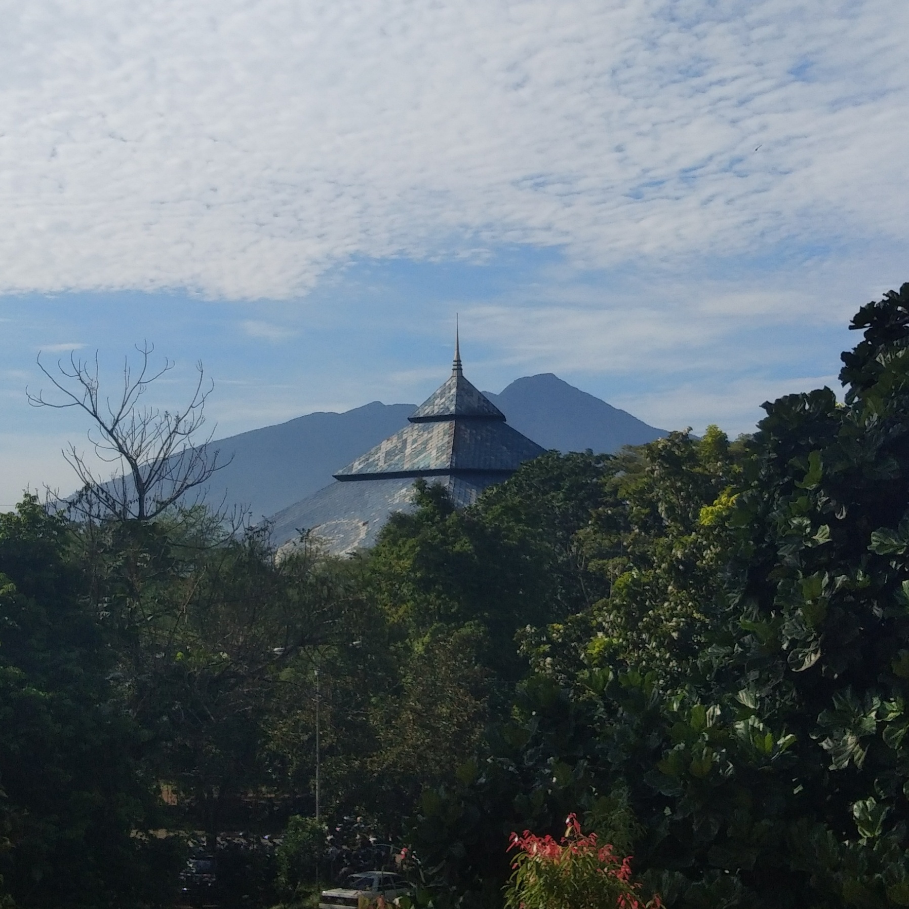 The Graha Widya Wisuda, hall of Bogor Agricultural University. Background: Mount Pangrango.